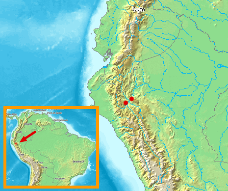 Distribution of Xenoglaux loweryi